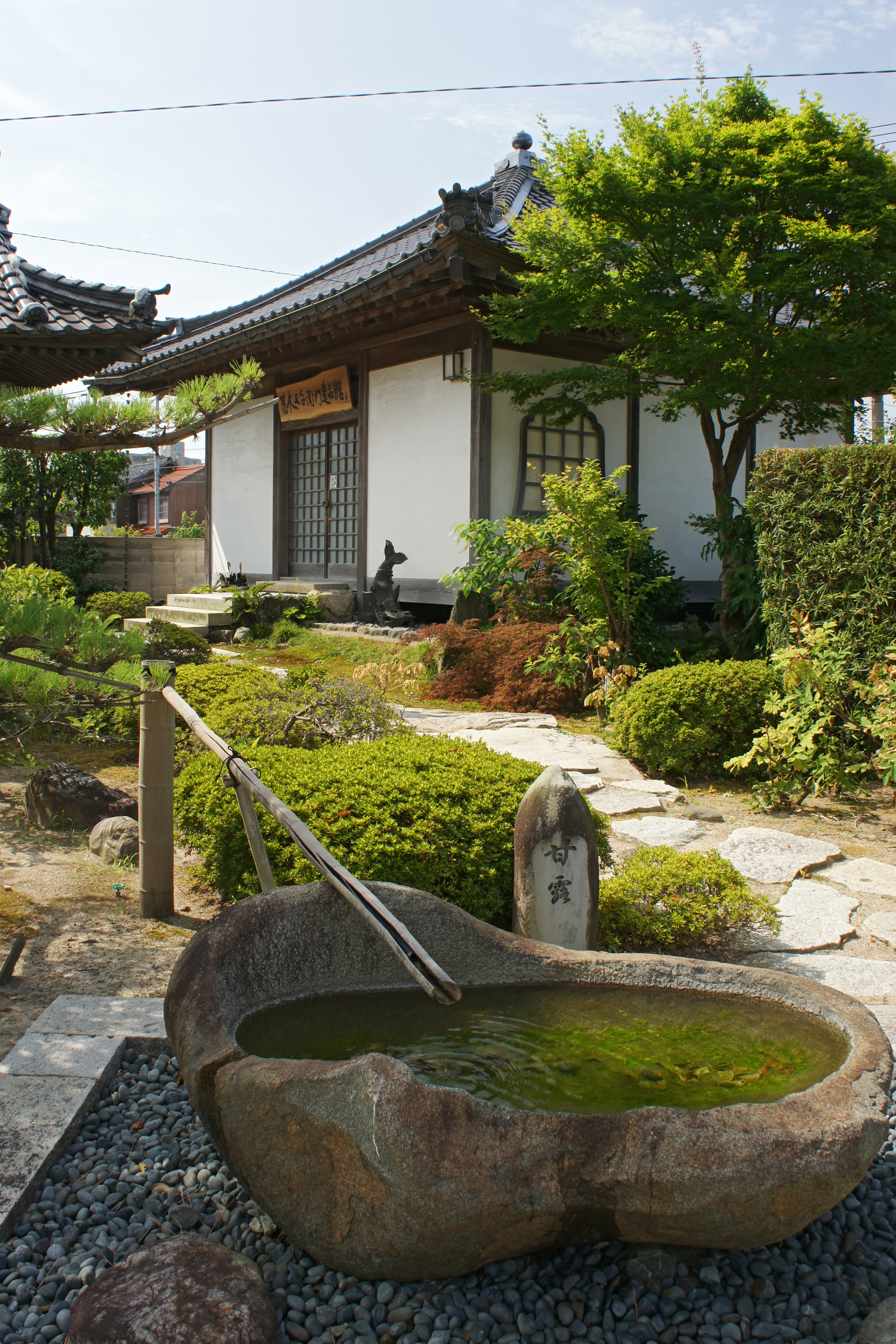 Genchuji in Tottori, Tottori prefecture, Japan.